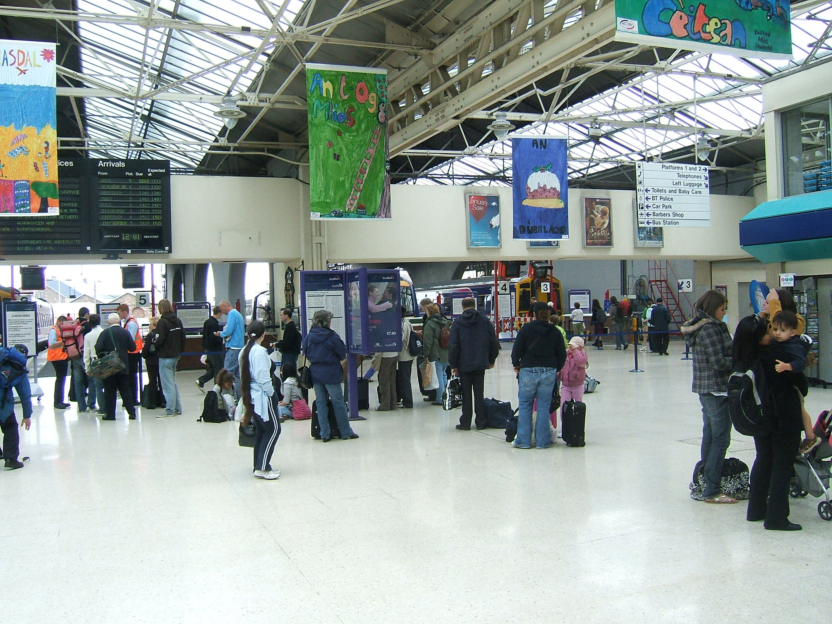 Concourse Inverness Station